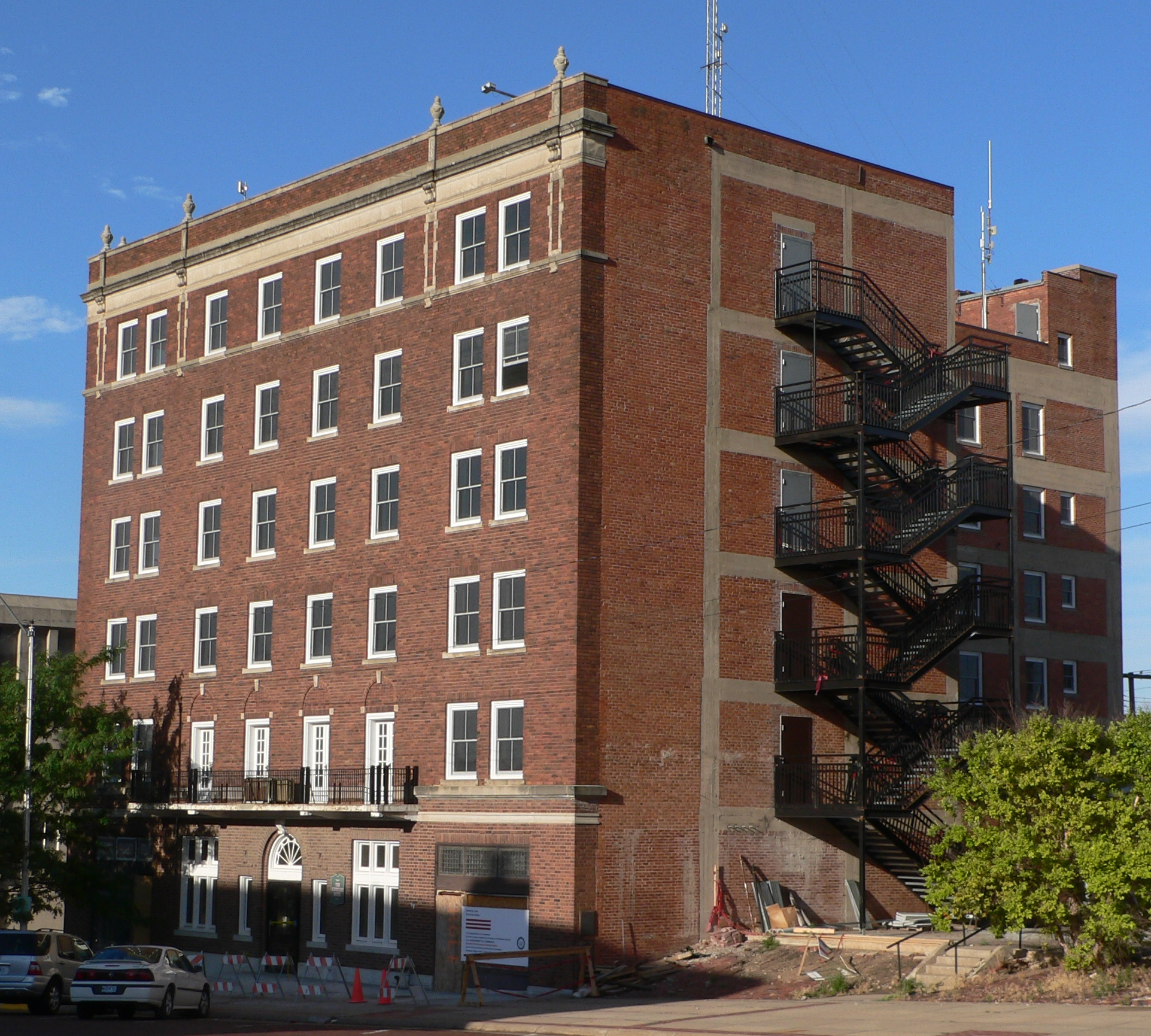 Keystone Hotel in McCook, Nebraska; seen from the northeast. The Renaissance Revival building was constructed in 1922. It is listed in the National Register of Historic Places.